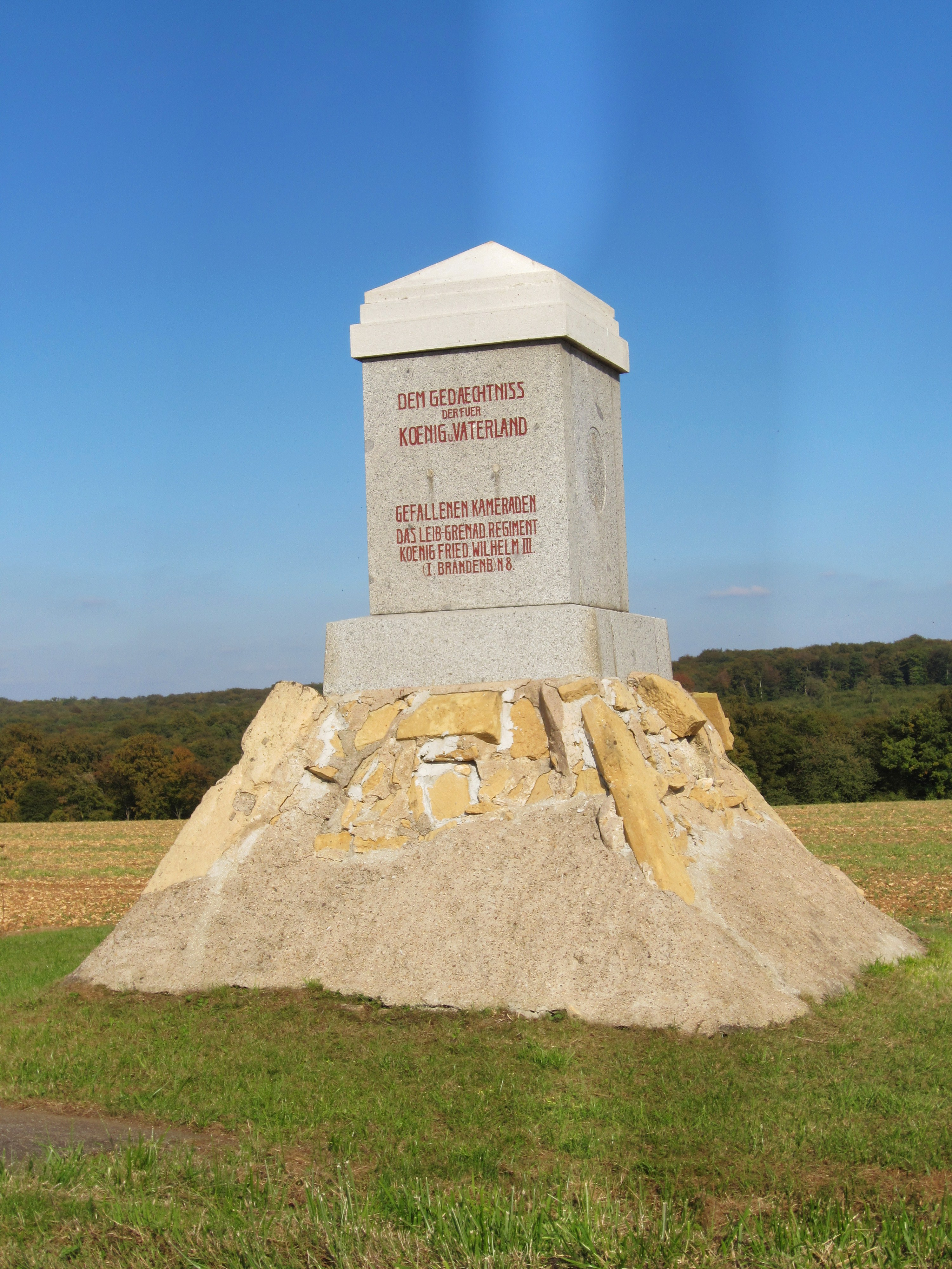 Franco-Prussian War memorial for the Leib-Grenadier-Regiment „König Friedrich Wilhelm III.“ (1. Brandenburgisches) Nr. 8 in Rezonville, Lorraine, France